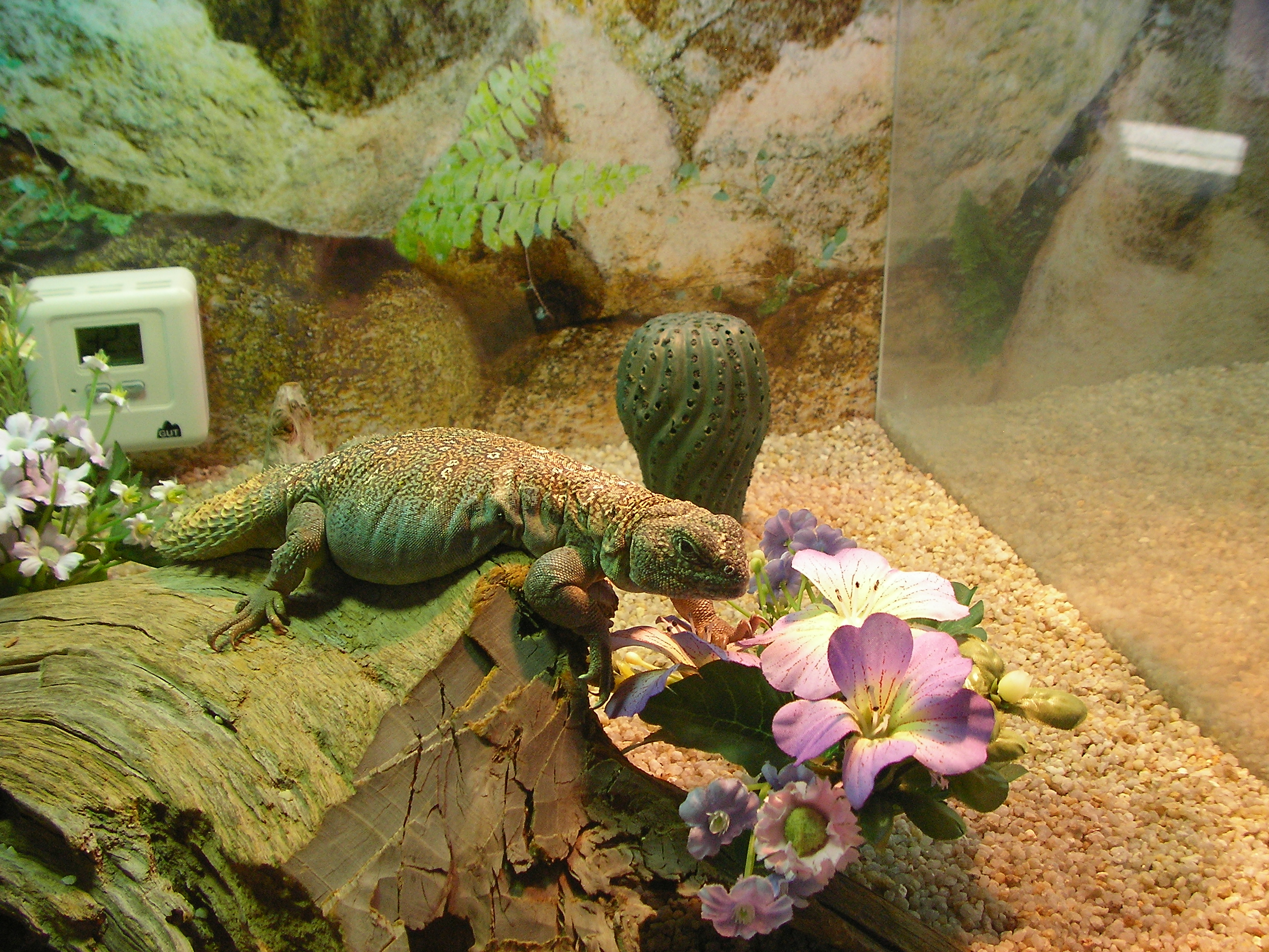 Uromastyx ocellata (Ocellated Spiny-tailed Lizard)taken in The Reptile House, Tuen Mun Park, Hong Kong